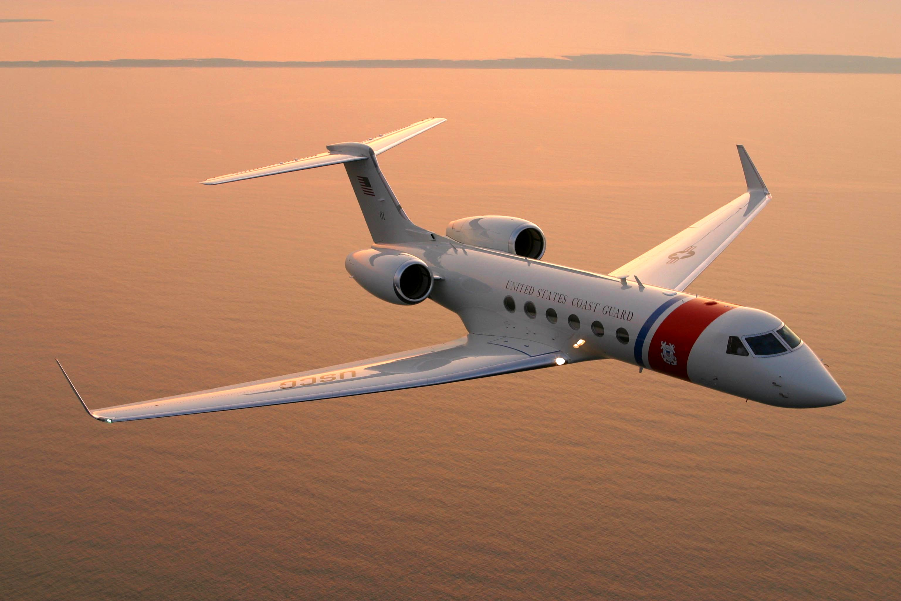 United States Coast Guard C-37A